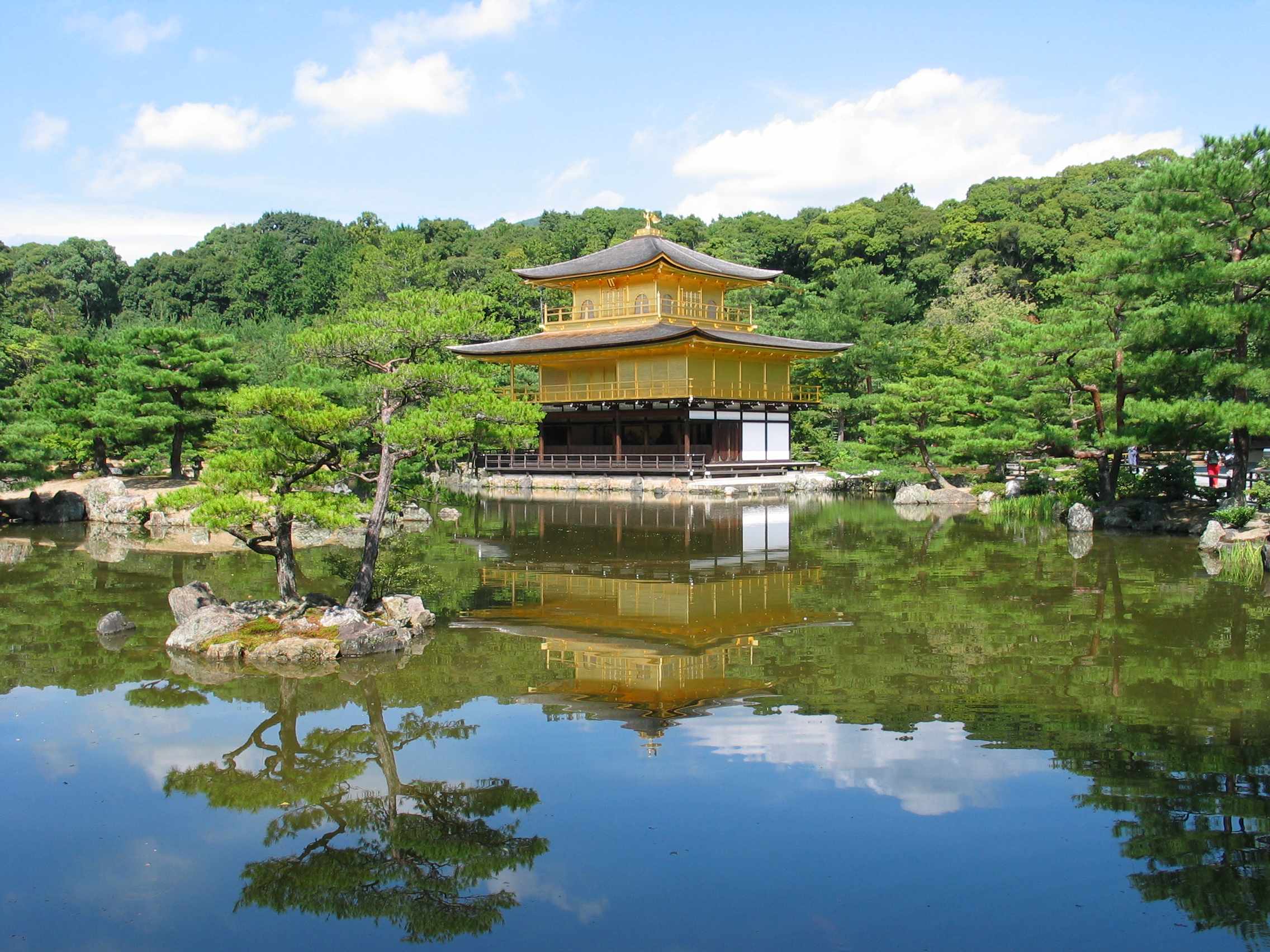 Kinkakuji (the Golden Pavillion) in Kyoto, Japan.